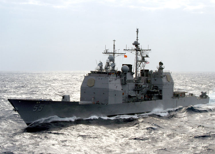 The USS Leyte Gulf (CG-55)